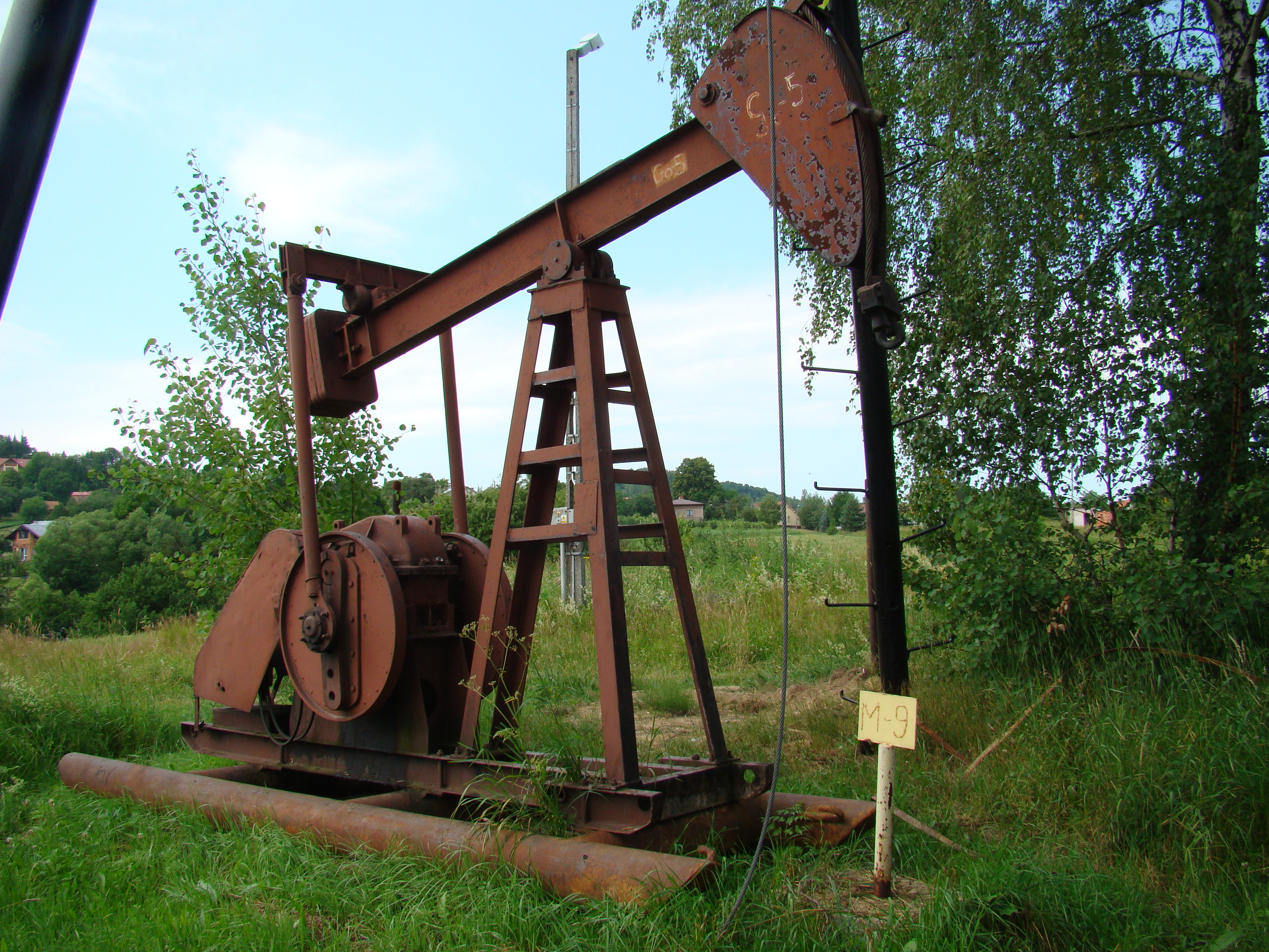 Old pumpjack from "Skansen Przemysłu Naftowego" in Gorlice (Poland)